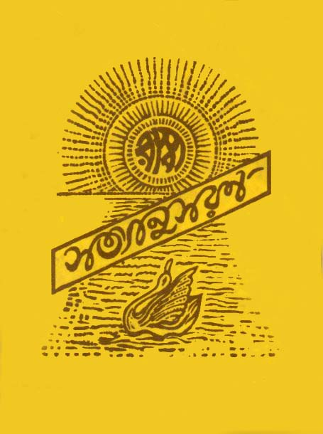 In Bengali Year 1316 (1910 A.D.), Sri Sri Thakur AnukulChandra at 22 years of age , in the course of one night wrote Satyanusaran